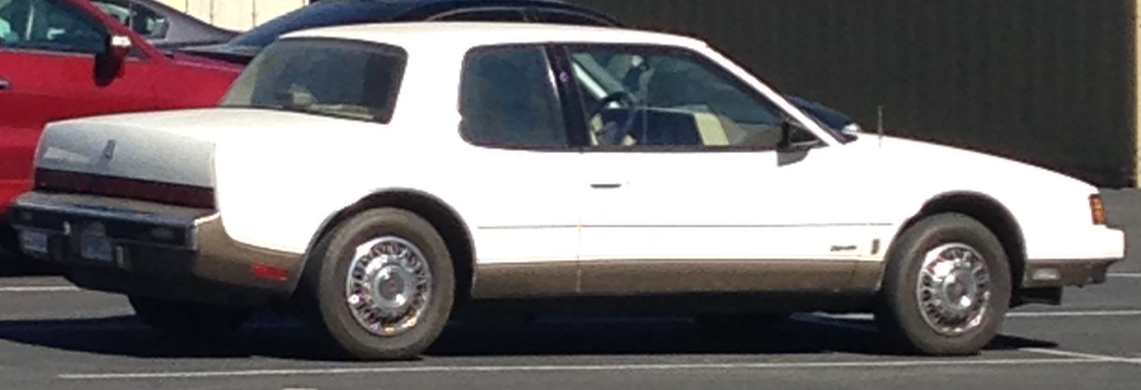 Oldsmobile Toronado Trofeo Coupe